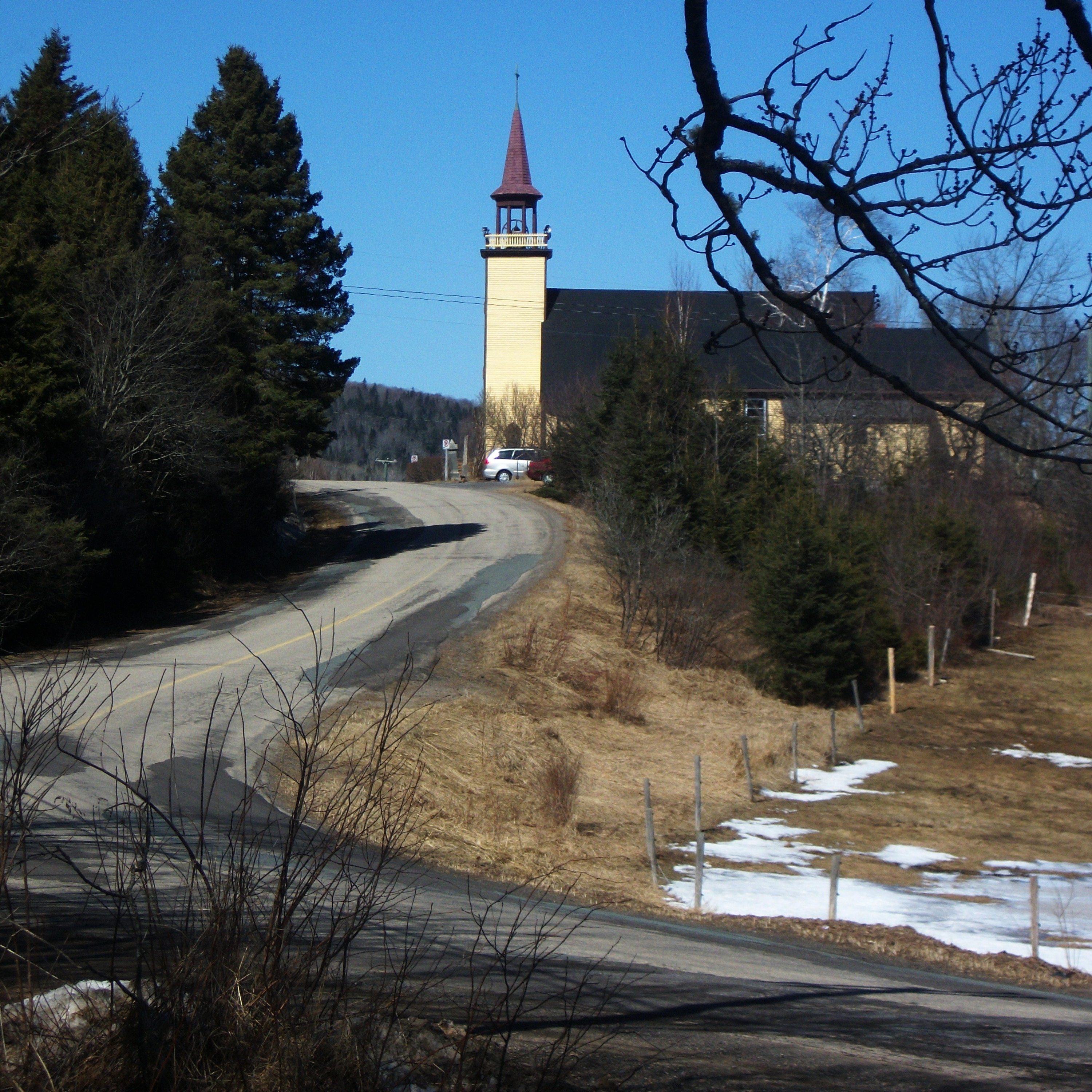 Christ Church (Anglican) in Bloomfield Station, Kings County, New Brunswick, Canada